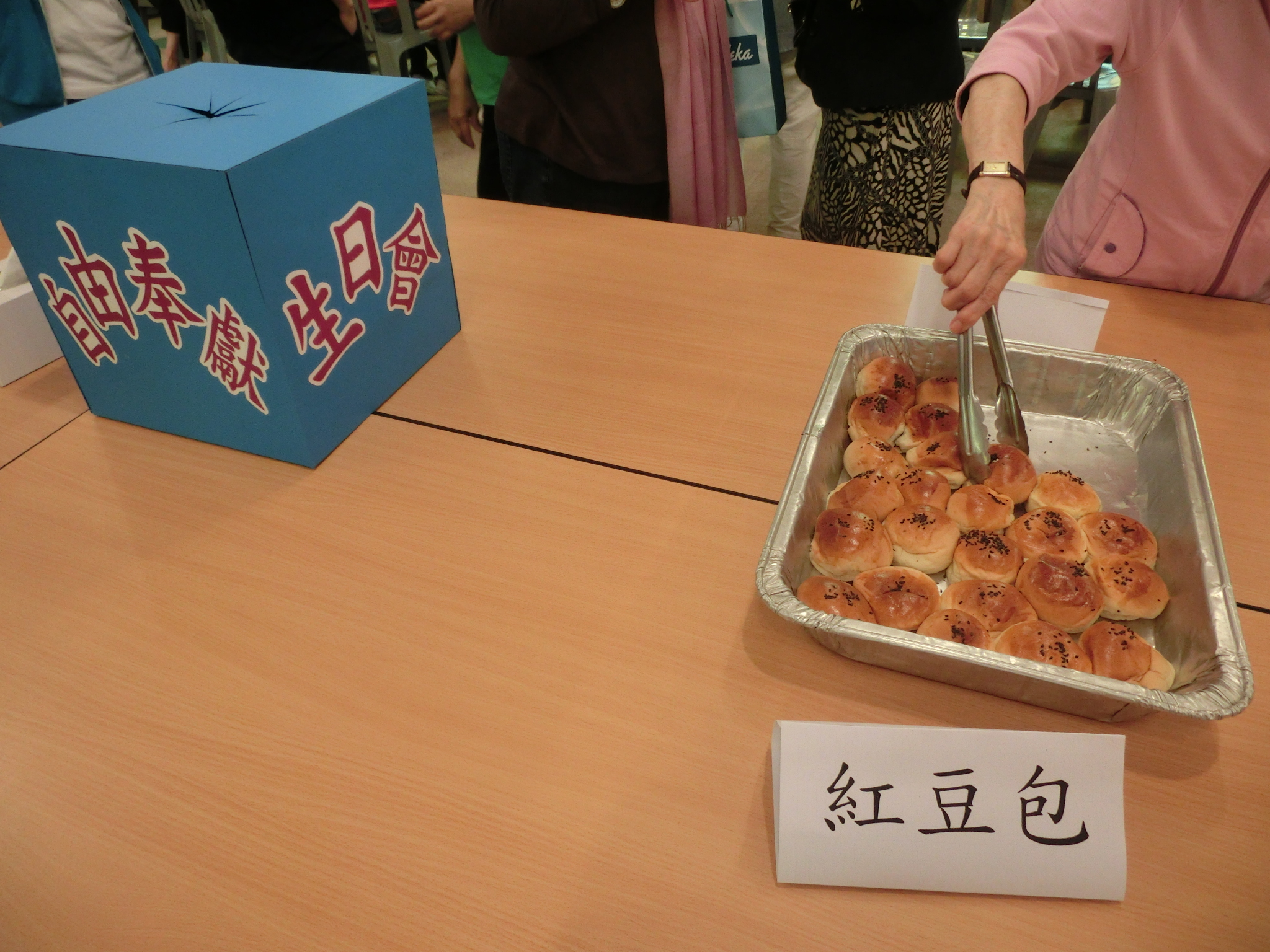 聖馬利亞堂, Social gethering in St. Mary's Church, Tung Lo Wan Road, Hong Kong